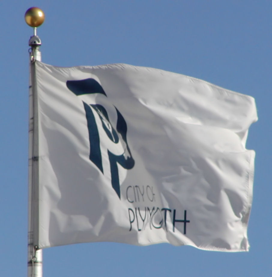 taken by William Wesen